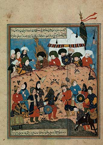 Before the battle near Kerbela